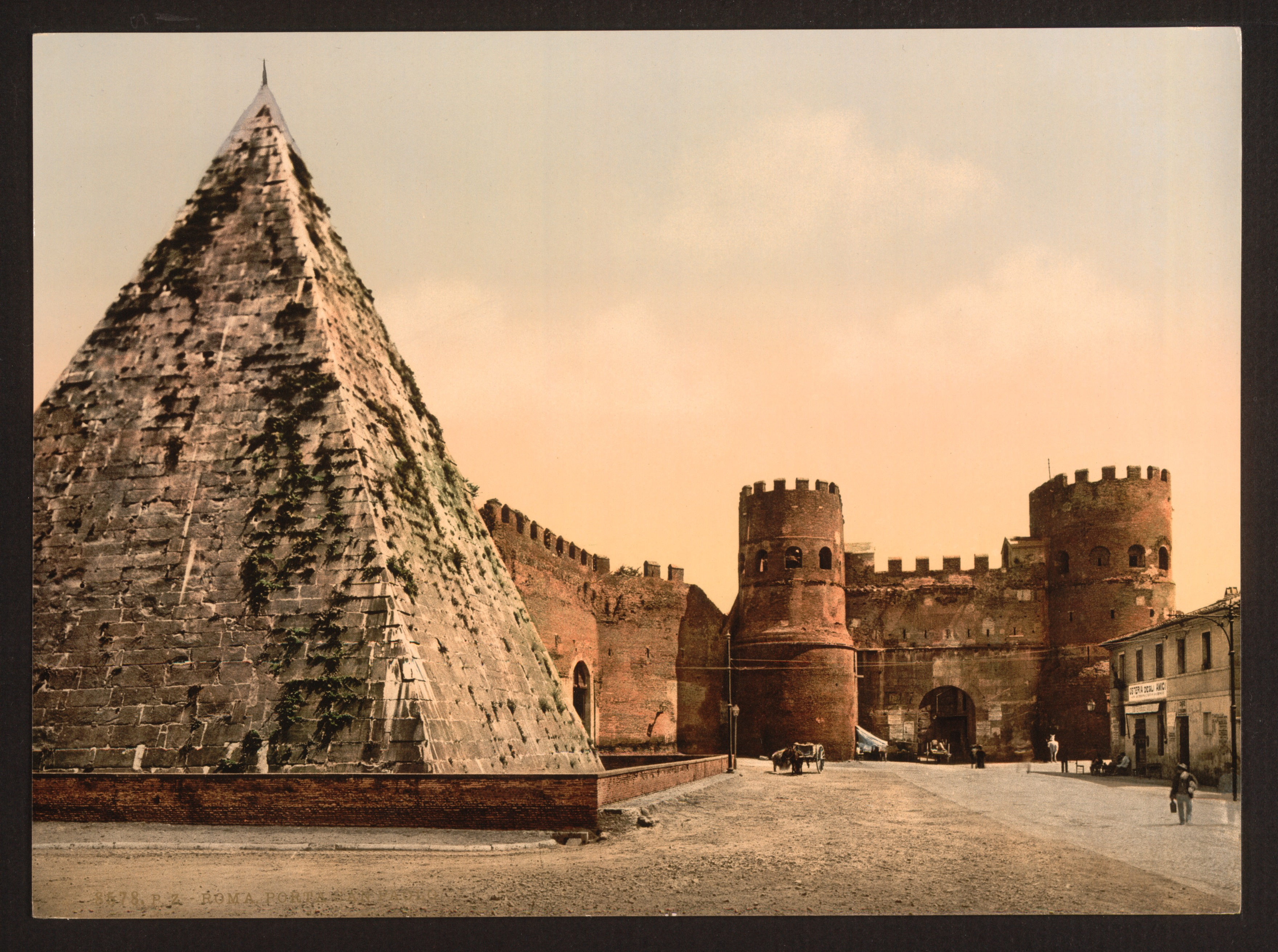 Photograph shows the Pyramid of Cestius at the left of St. Paul's Gate, which was built about 18-12 B.C. as a tomb for Gaius Cestius. (Source: Flickr Commons project, 2013)